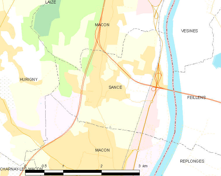 Map of French municipality